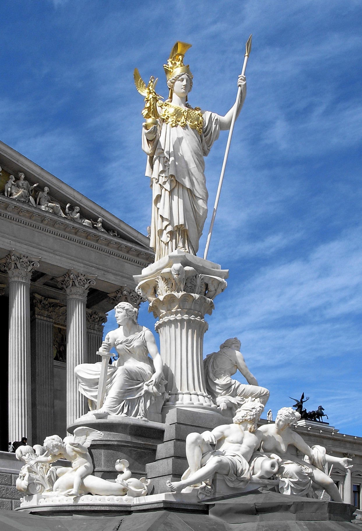 Austria, Vienna, Austrian Parliament Building